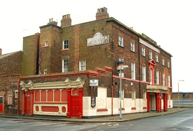 Goole, East Riding of Yorkshire, England.The Lowther Hotel is on Aire Street.